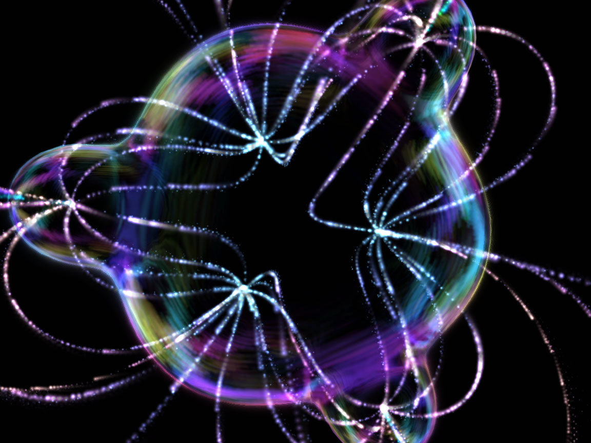 Screenshot of a GPL screensaver